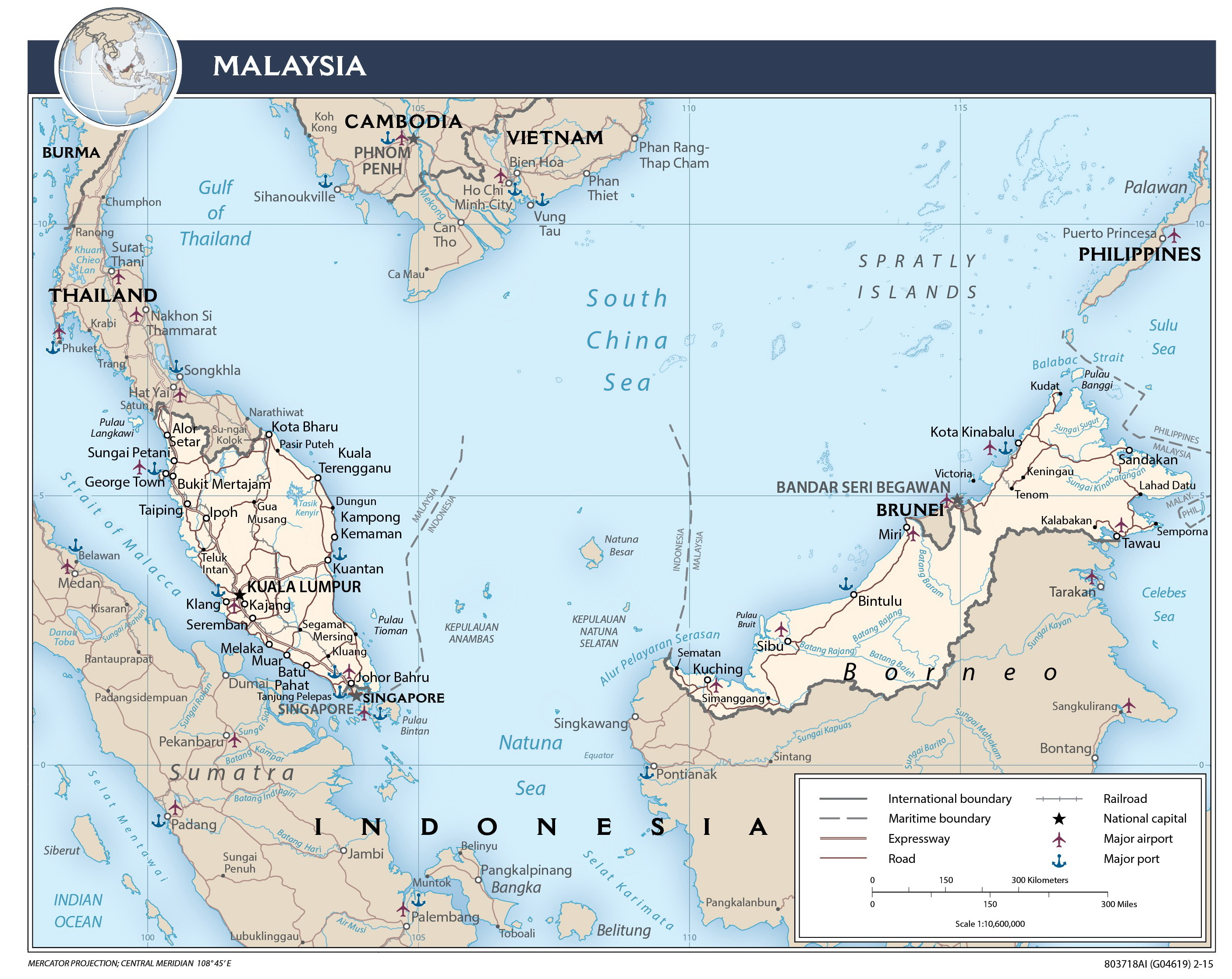 Transport system in Malaysia, 2015.